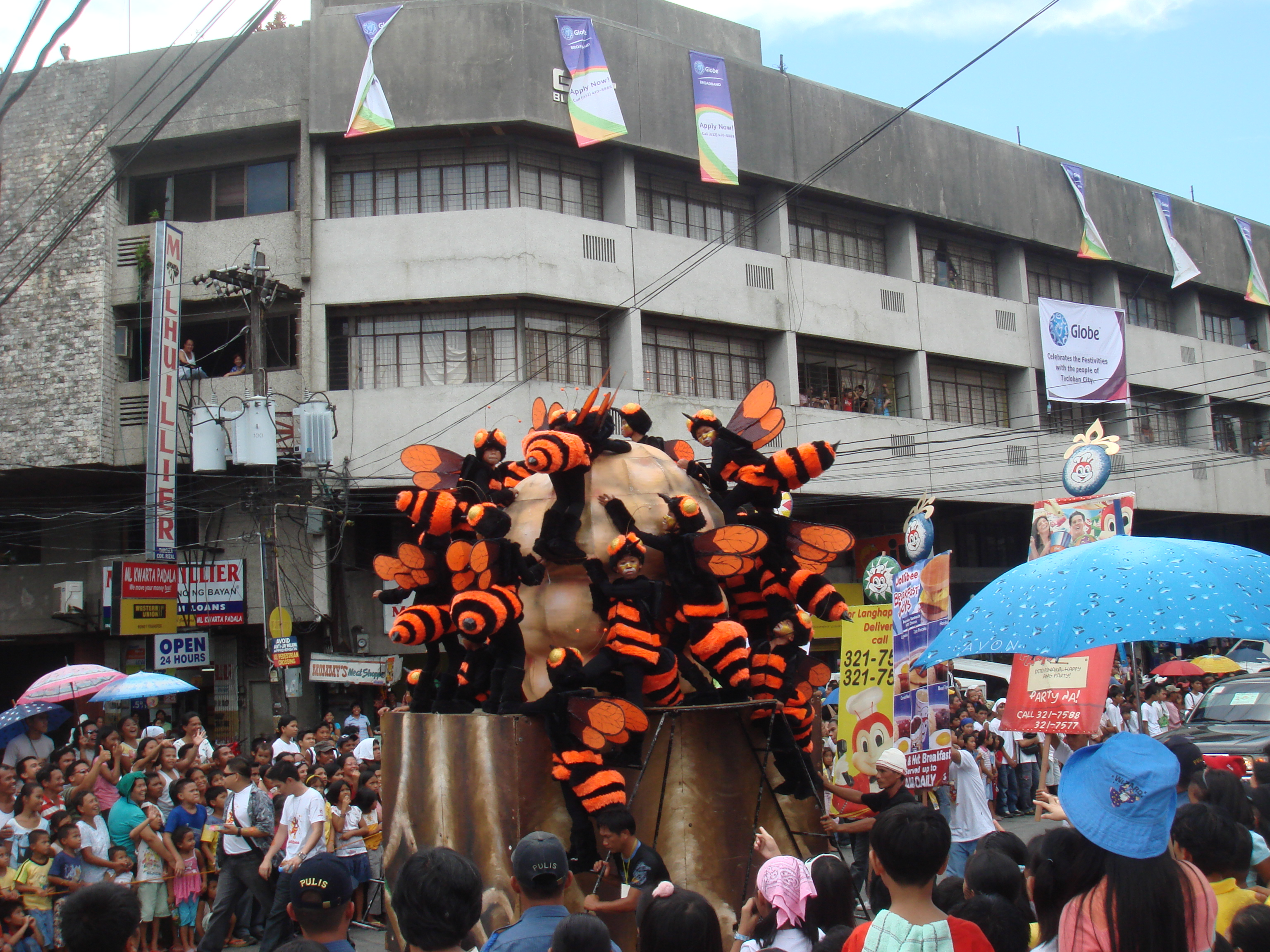 Performers of Buyogan Festival